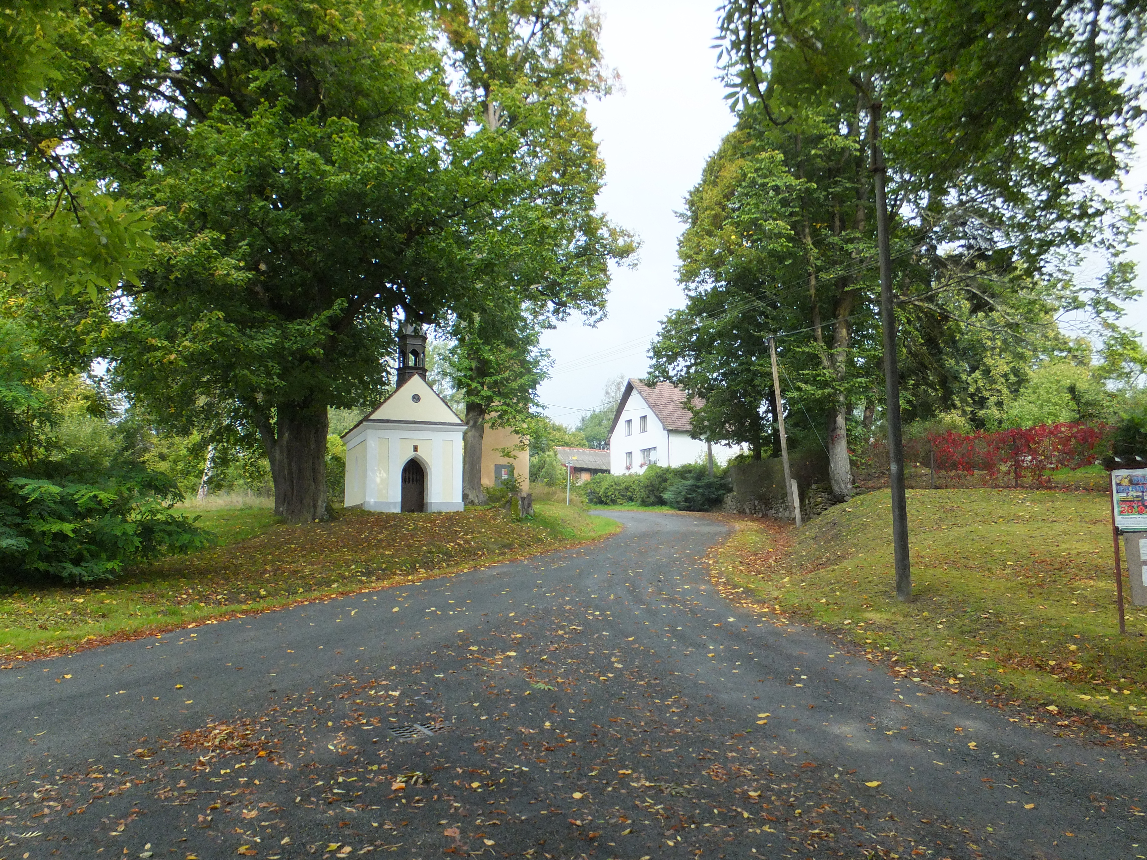 The chapel in Křínov